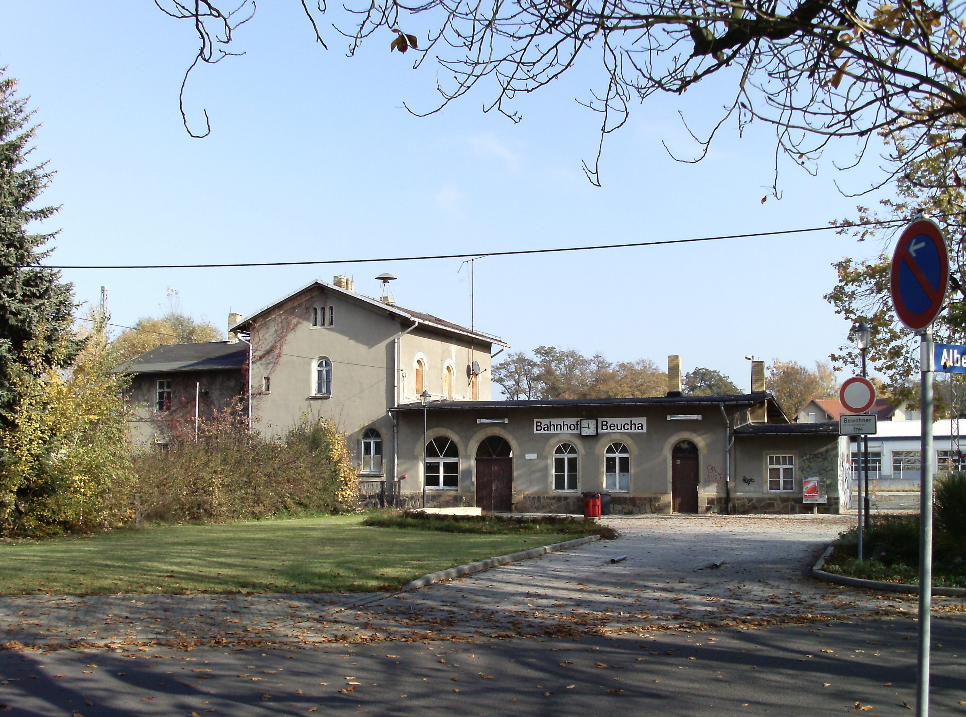 Beucha train station (Brandis, Leipzig district, Saxony)